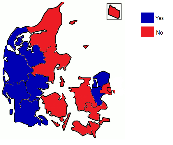 Danish Maastricht Treaty referendum results by county, 1992